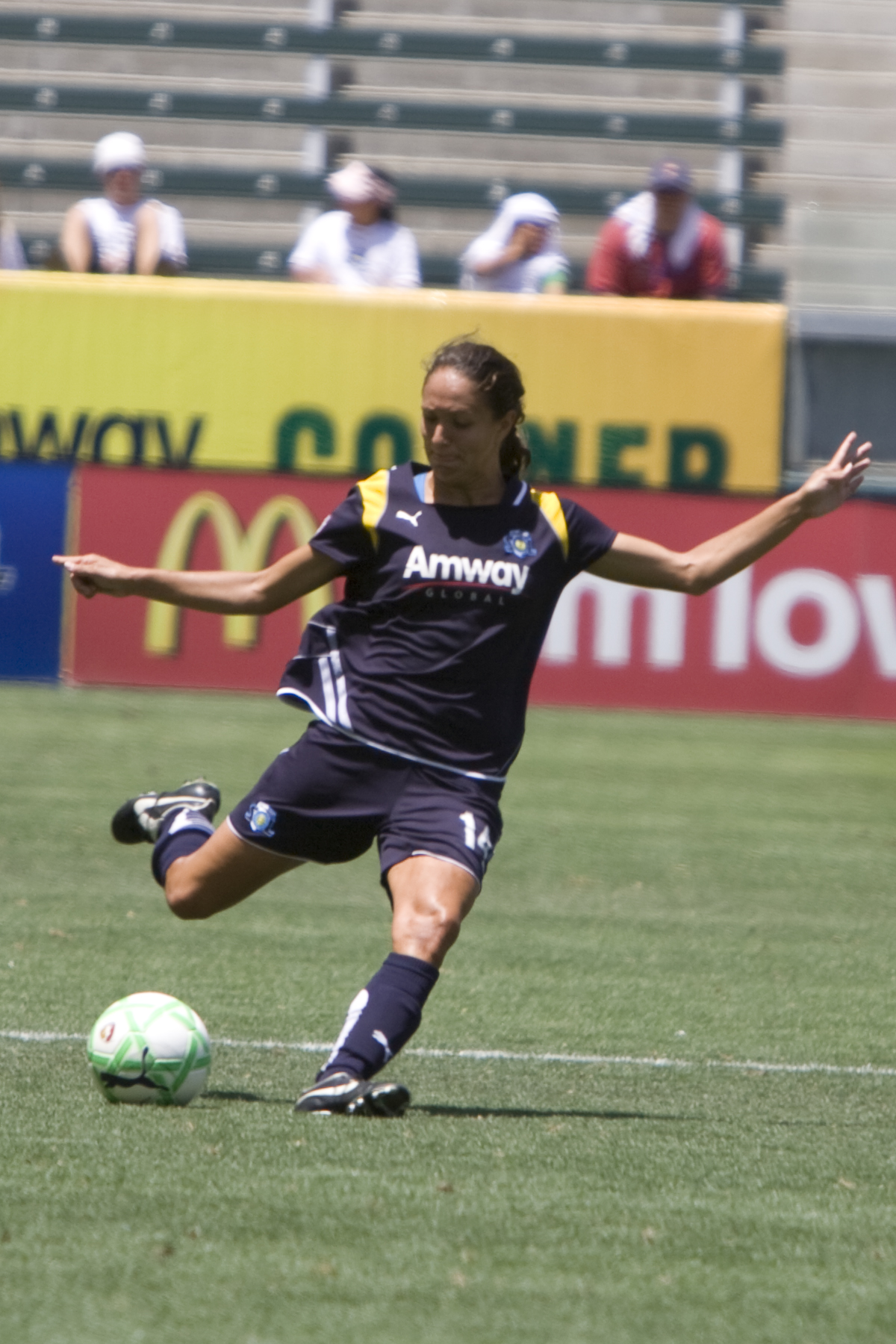 photo of American soccer player, Stephanie Cox